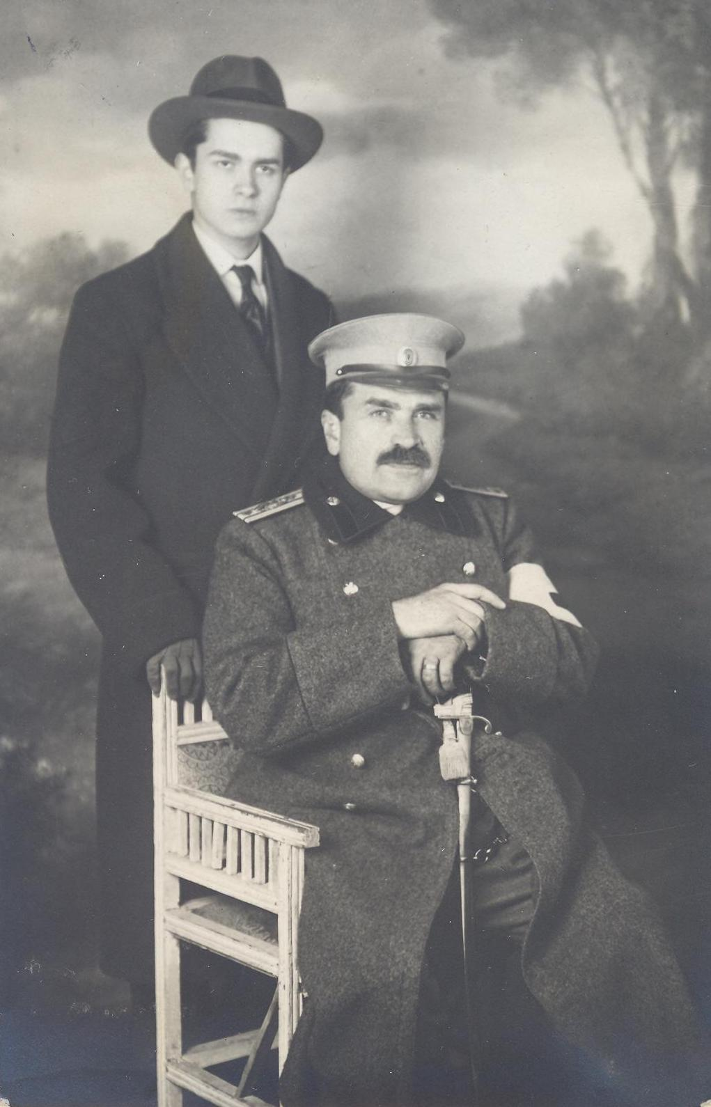 Bulgarian medical doctor Paraskev Stoyanov